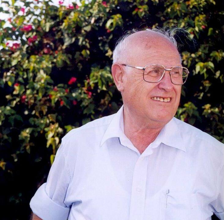 A Picture of Israeli Prof. Amnon Marinov